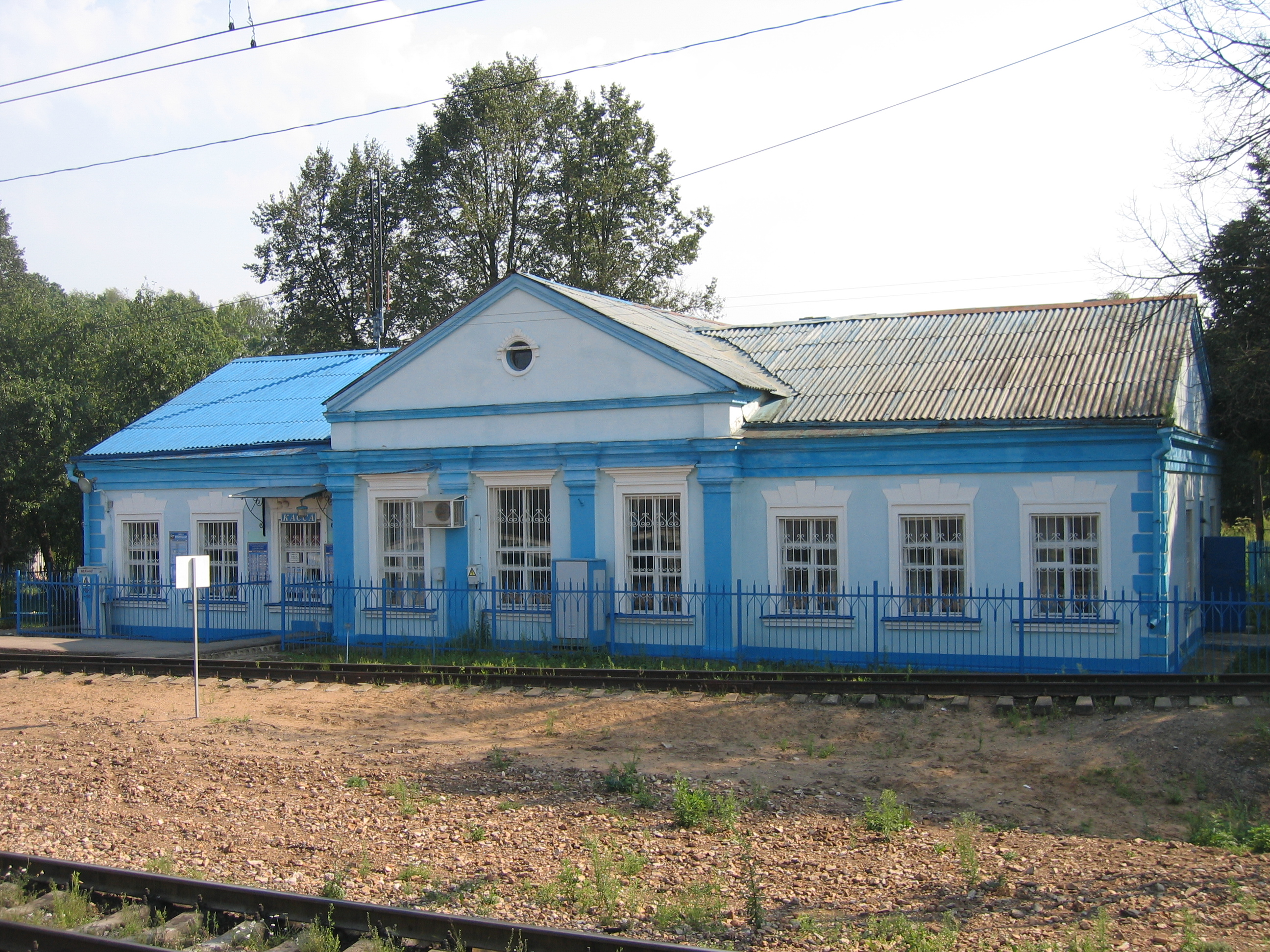 Shemyakino train station, Kaluga Oblast, Russia